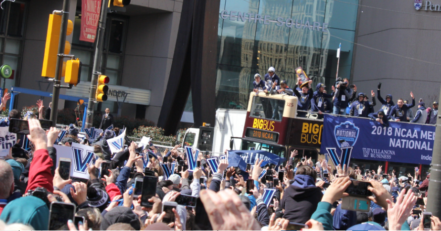 CROPPED from original photo on WikiCommons. Photo from Villanova parade